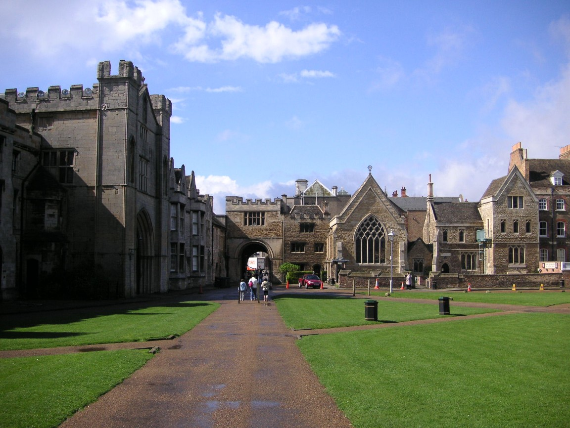 Peterborough Cathedral, view of the precinct from near the west font, looking towards the gatehouse.